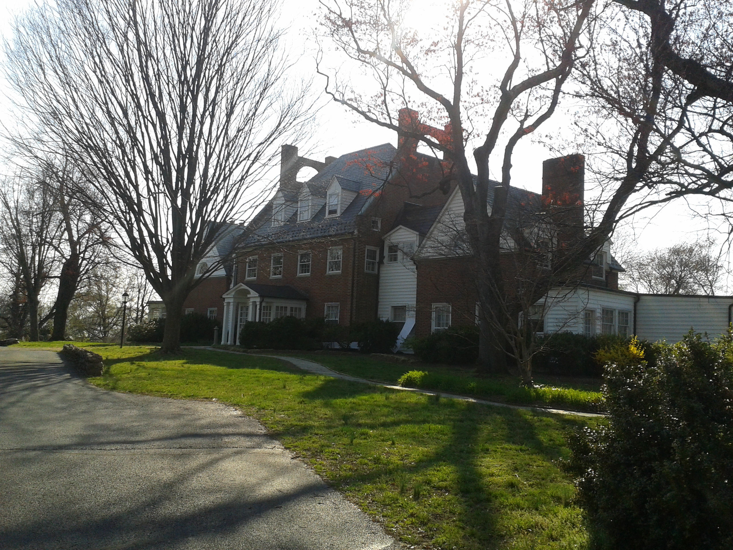 Hollin Hall seen from the garden outside the house